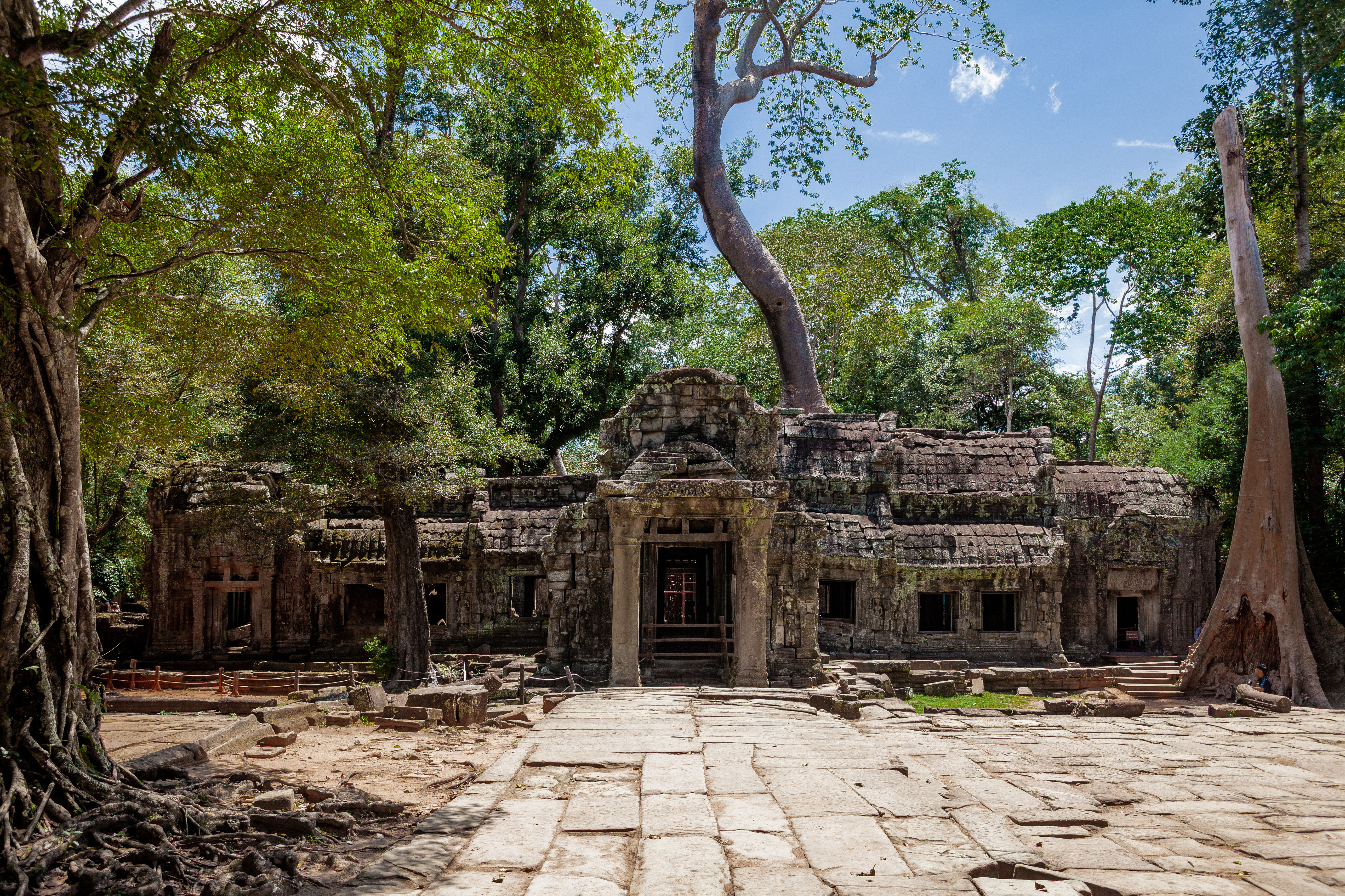 Ta Prohm (Khmer: ប្រាសាទតាព្រហ្ម, pronunciation: prasat taprohm) is the modern name of the temple at Angkor, Siem Reap Province, Cambodia, built in the Bayon style largely in the late 12th and early 13th centuries and originally called Rajavihara (in Khmer: រាជវិហារ). Located approximately one kilometre east of Angkor Thom and on the southern edge of the East Baray, it was founded by the Khmer King Jayavarman VII[1]:125[2]:388 as a Mahayana Buddhist monastery and university. Unlike most Angkorian temples, Ta Prohm is in much the same condition in which it was found: the photogenic and atmospheric combination of trees growing out of the ruins and the jungle surroundings have made it one of Angkor's most popular temples with visitors. UNESCO inscribed Ta Prohm on the World Heritage List in 1992. Today, it is one of the most visited complexes in Cambodia’s Angkor region. The conservation and restoration of Ta Prohm is a partnership project of the Archaeological Survey of India and the APSARA (Authority for the Protection and Management of Angkor and the Region of Siem Reap).